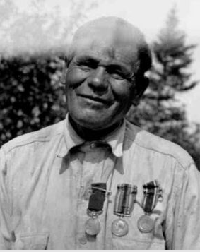 Sam Gloade, Mi'kmaq and Nova Scotia military veteran